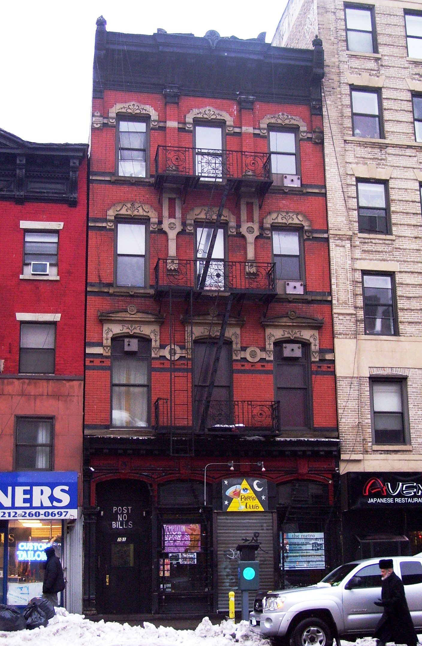 101 Avenue A, between East 6th and 7th Streets, in the Alpahbet City area of the East Village neighborhood of Manhattan, New York City, location of the Pyramid Club nightclub, which opened in 1979. The neo-Grec building, which was designed by William Jose, was constructed in 1876. (Source: [1])